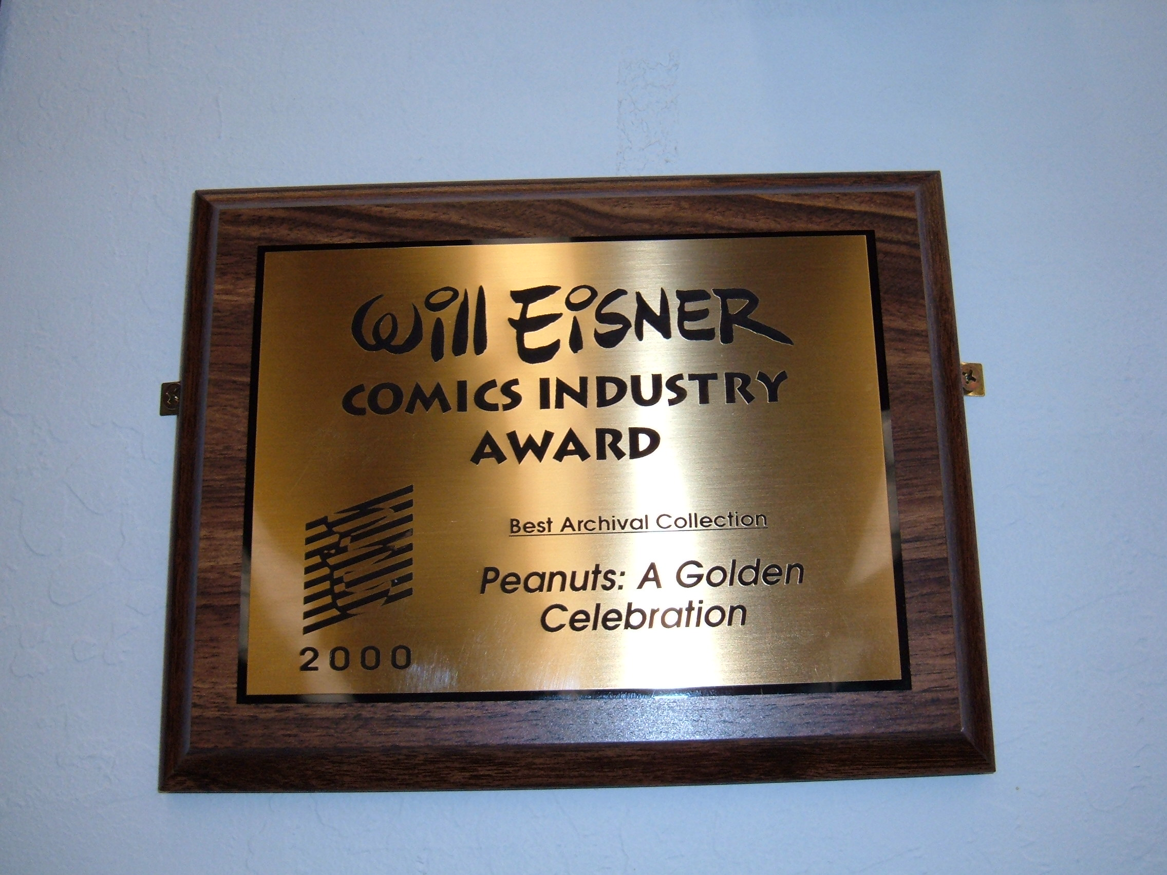 The 2000 Will Eisner Comics Industry Award for Best Archival Collection for Peanuts: A Golden Celebration, on display at Snoopy's Gallery and Gift Shop in Santa Rosa, California.